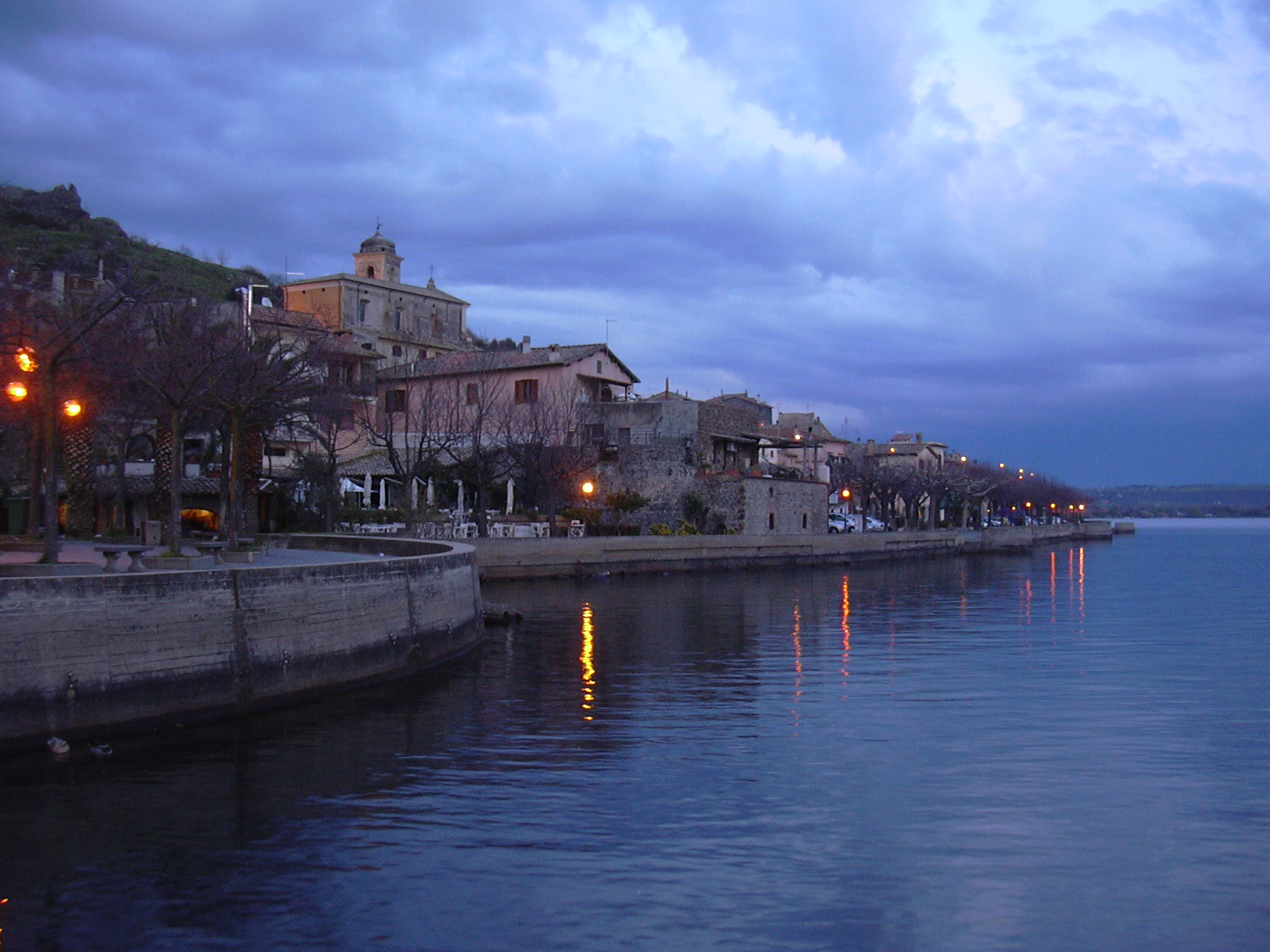 Trevignano Romano, lakeside in twilight